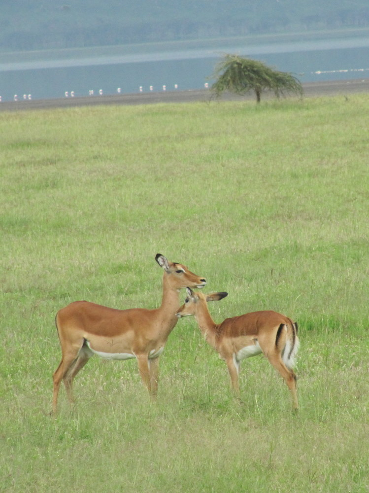 Impala in Lake Nakuru National Park, Kenya